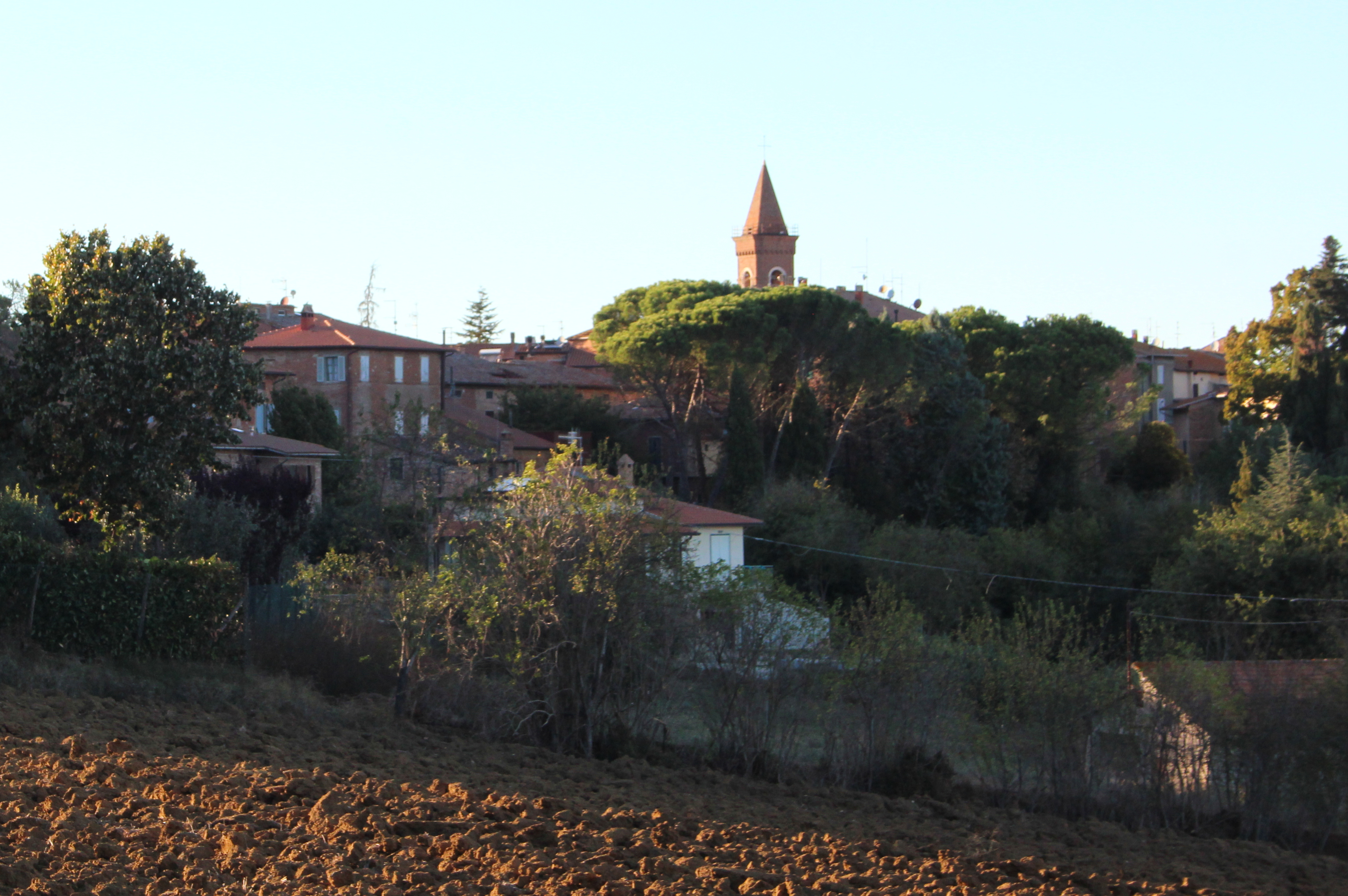 Gioiella, hamlet of Castiglione del Lago, Province of Perugia, Tuscany, Italy